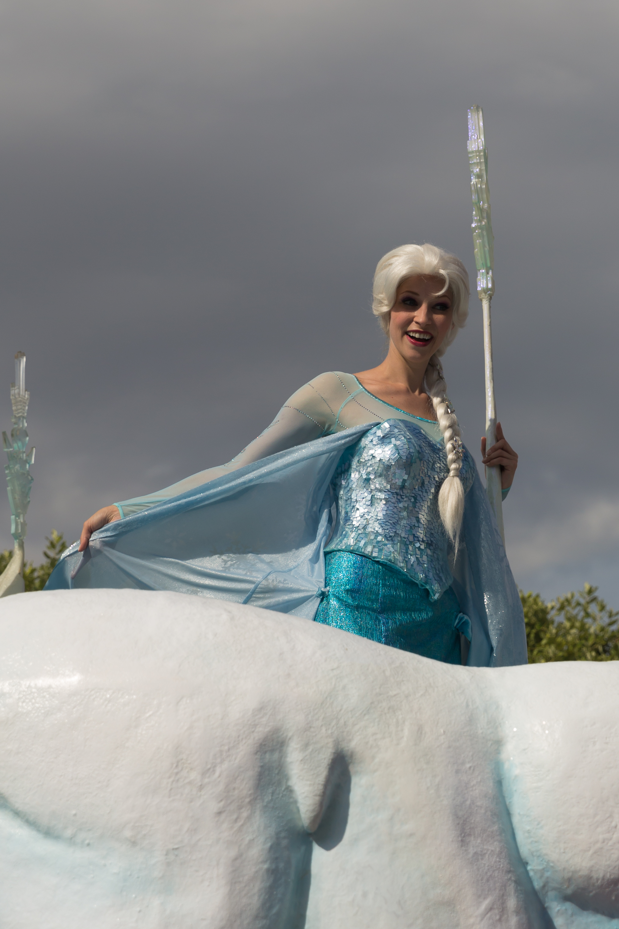 Elsa the Snow Queen at the Disney Magic On Parade in Disneyland Paris.